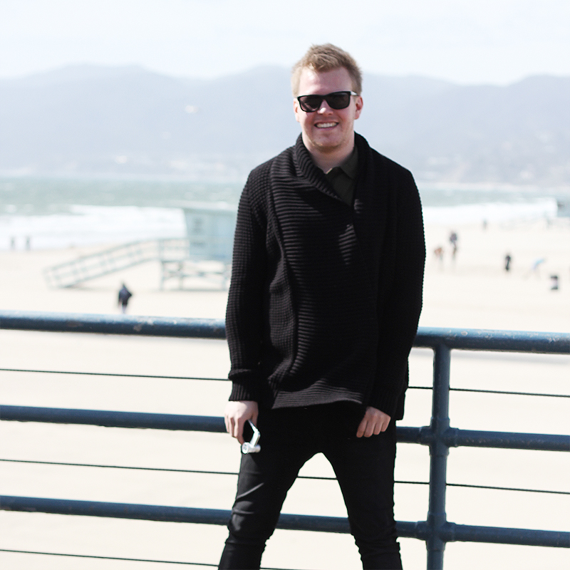 Antonin Sebastian Milata